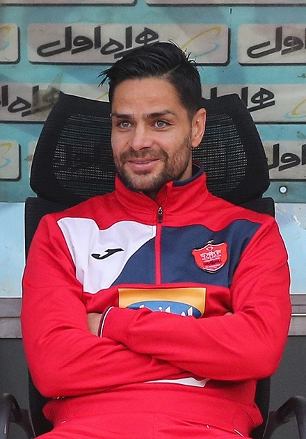 Kamal Kamyabinia